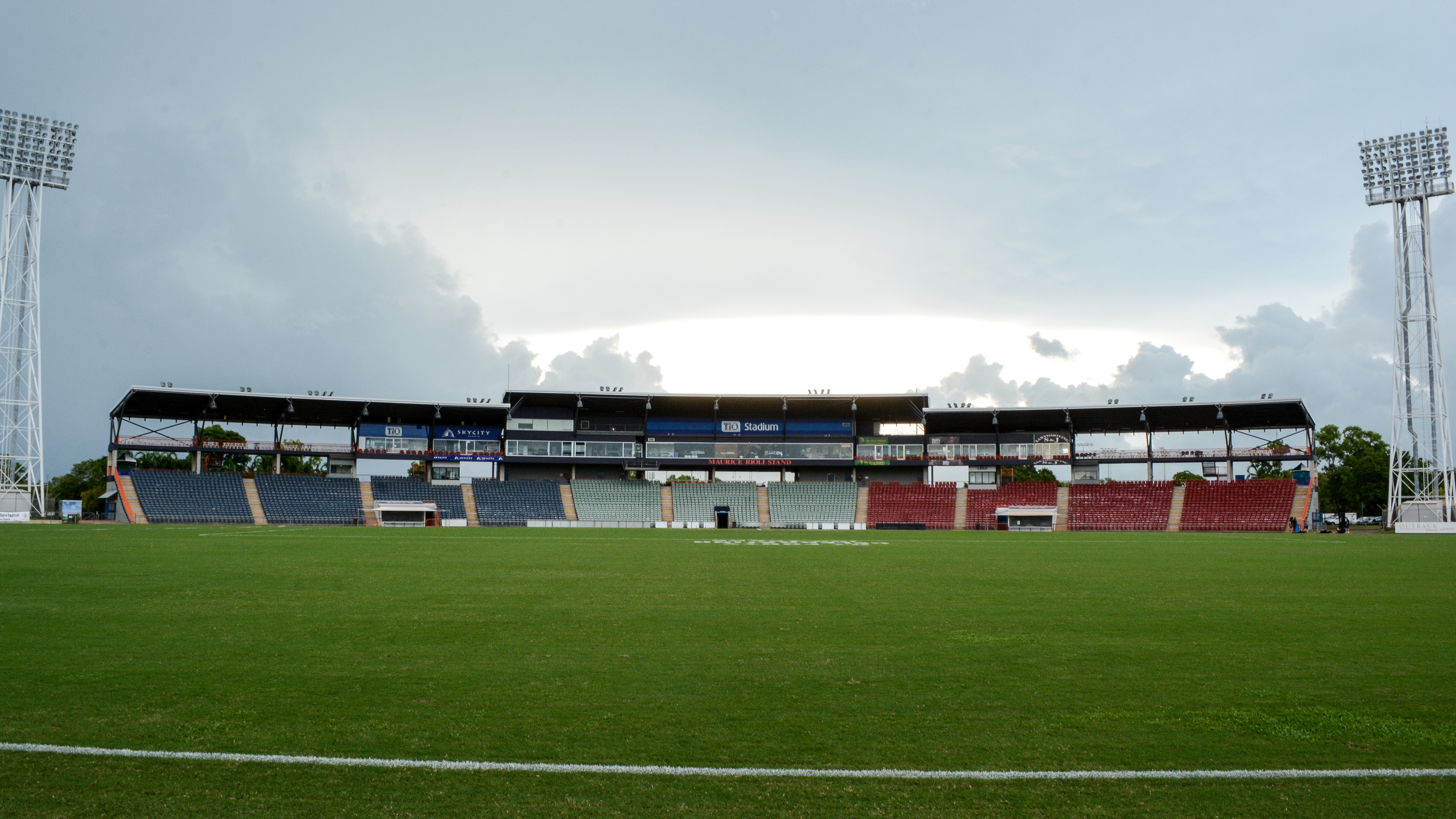 View of the grandstand at Marrara Oval